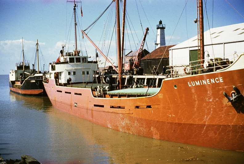 Ships at the quayside, taken at Whitstable, Kent